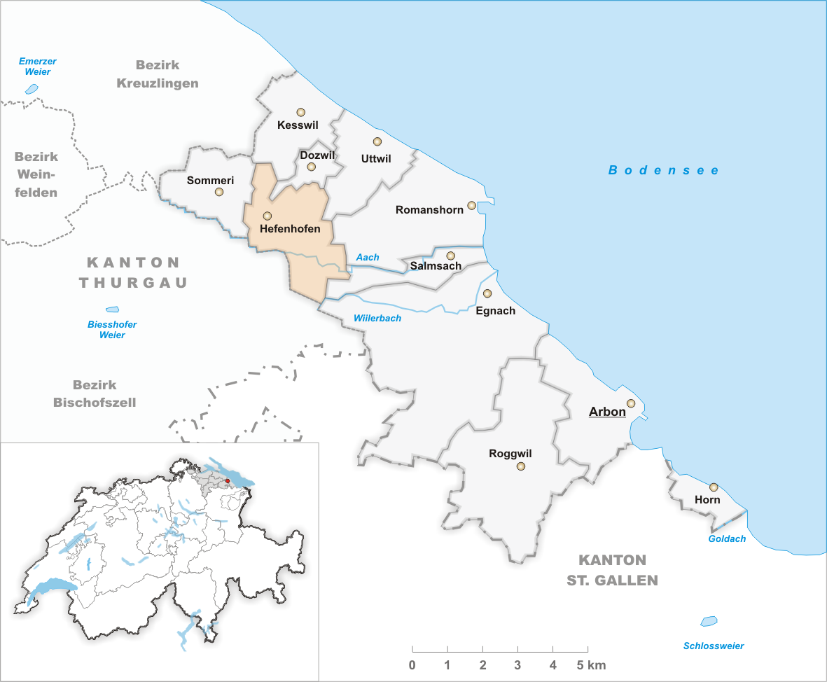 Municipality Hefenhofen